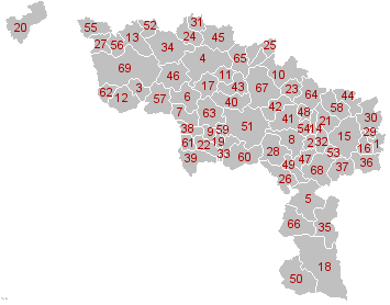 Municipalities Hainaut